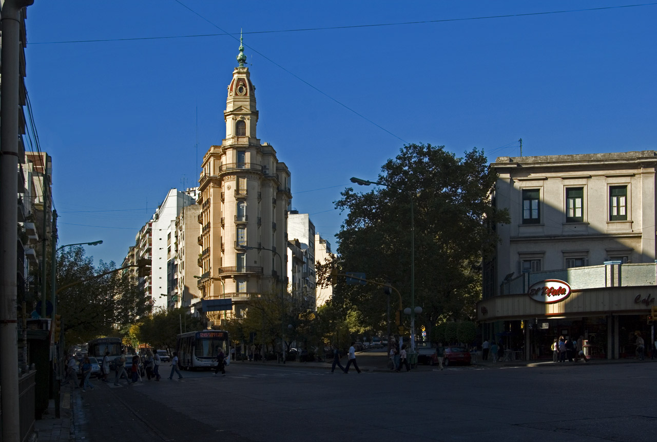 Rivadavia Avenue and Yrigoyen Street, in the Almagro neighbourhood (Buenos Aires, Argentina). There is the building known as Palacio Raggio (Raggio Palace)